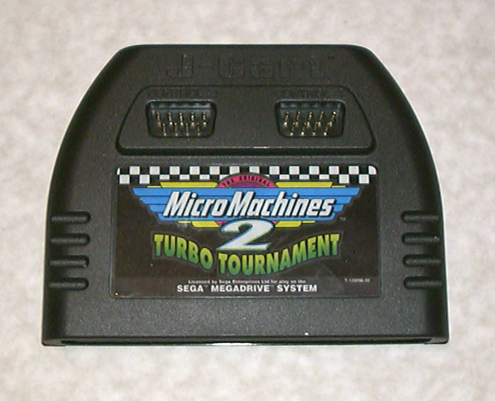 Codemasters' J-Cart was a solution to sell 4 player games without the need of an multitap. There were only versions for the Sega Mega Drive (Sega Genesis in North America).